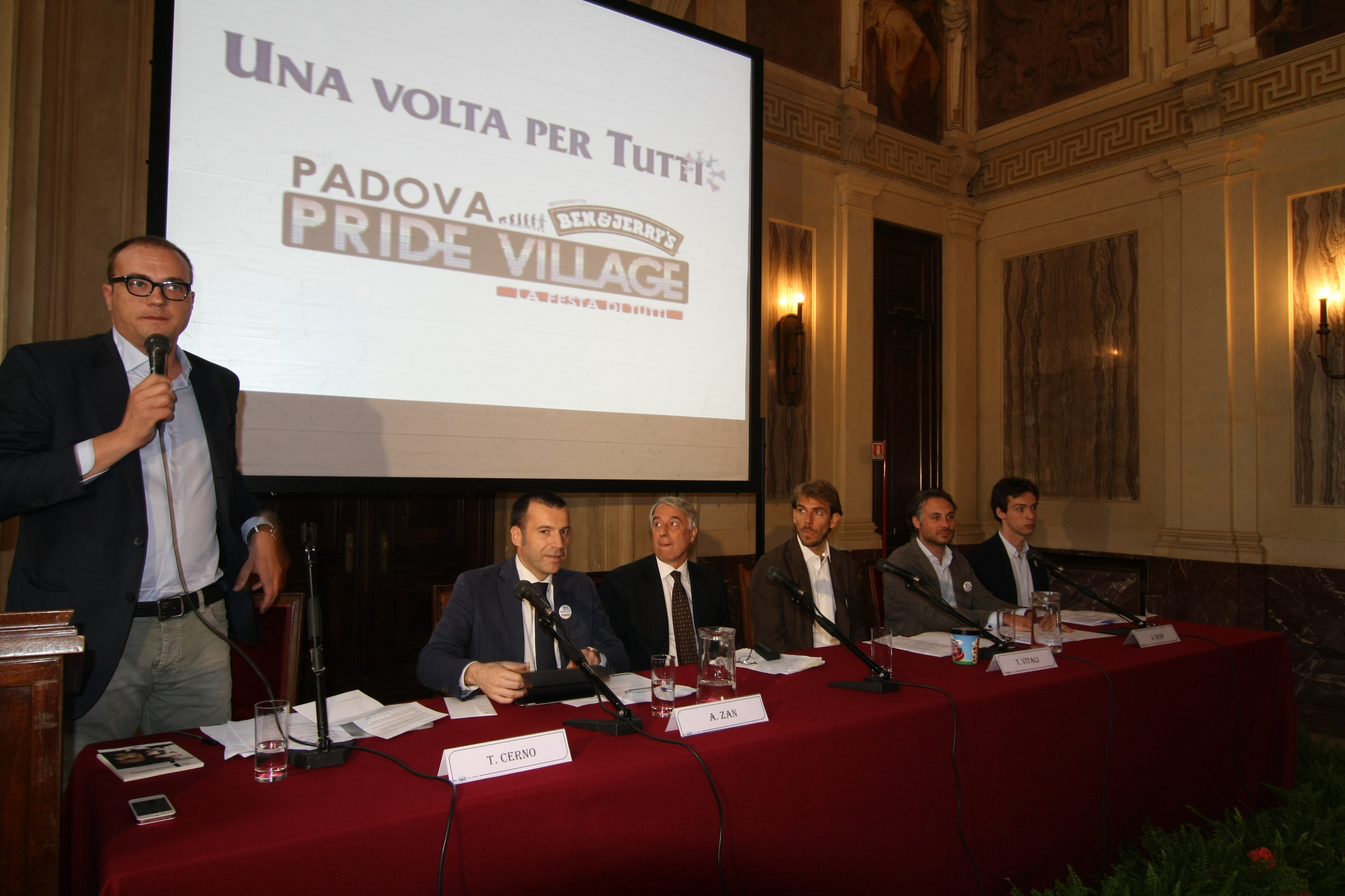 Press conference "Una volta per tutti" for a civili unions law in Italy. Milan, (June 8, 2012) .